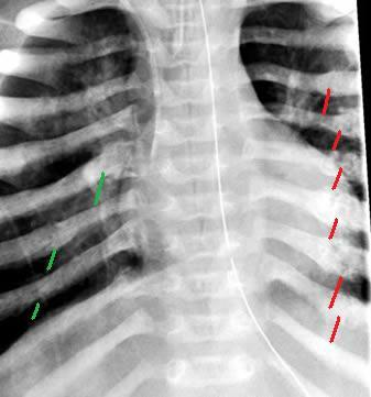 Fractures of ribs in an infant.